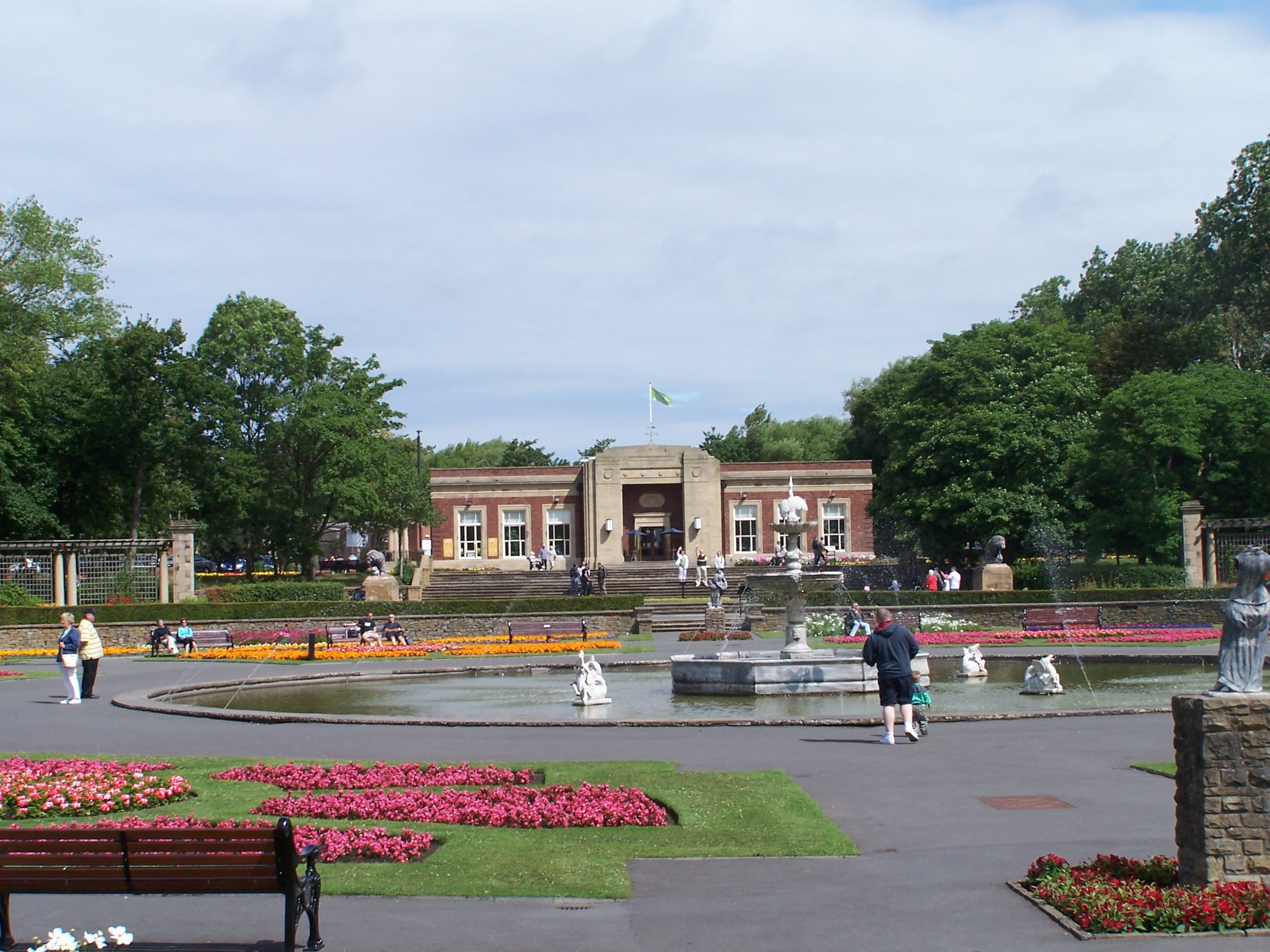 Italian Gardens, Lions and Cafe, Stanley Park, Blackpool